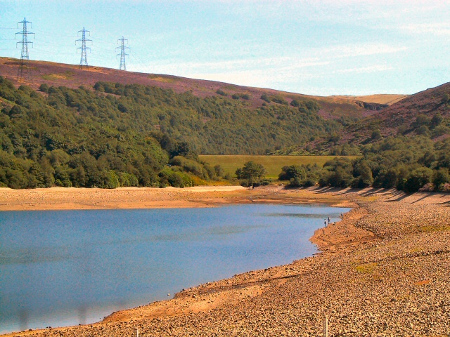 Walkerwood Reservoir Almost empty at this time of year. This reservoir actually impinges upon 4 grid squares. However the picture was taken from the road over the dam wall, standing firmly at SJ985989, and showing the arid foreshore of the square, not normally accessible during the winter and spring.